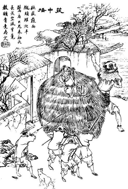 19th-century illustration of a scene from the short story "The Monster in the Buckwheat" collected in Strange Tales from a Chinese Studio (1740).